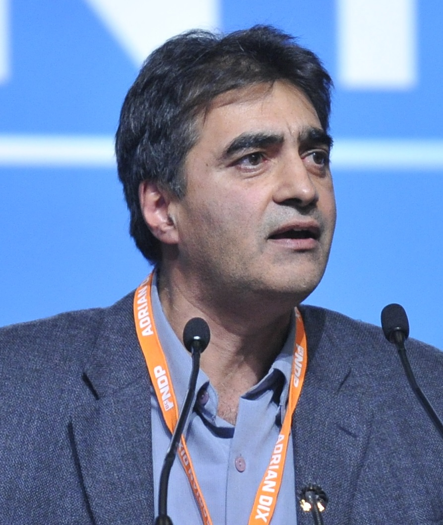 Moe Sihota